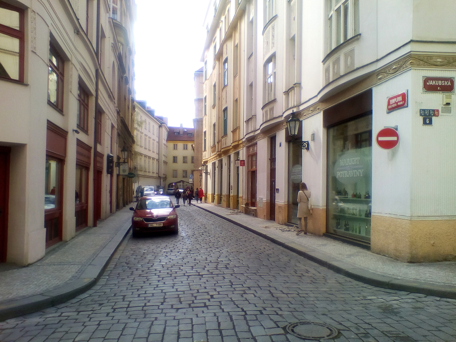 Templova street in Prague, view from Jakubska street